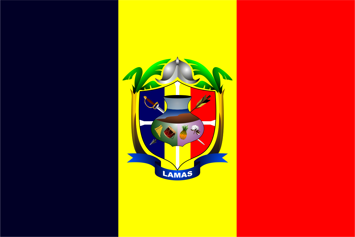 District Lamas - Lamas Province - Region San Martin